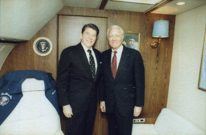 President Ronald Reagan, Robert Orr, Winfield Moses (2-23) Visiting Flood victims in Fort Wayne, Indiana President Ronald Reagan departure via Limousine from Precious Blood Catholic Church (24-28) Departure via Limousine from Precious Blood Catholic Church President Ronald Reagan, Robert Orr, Winfield Moses, James Rhodes (29-36) Departure via Air Force One from Fort Wayne, Indiana